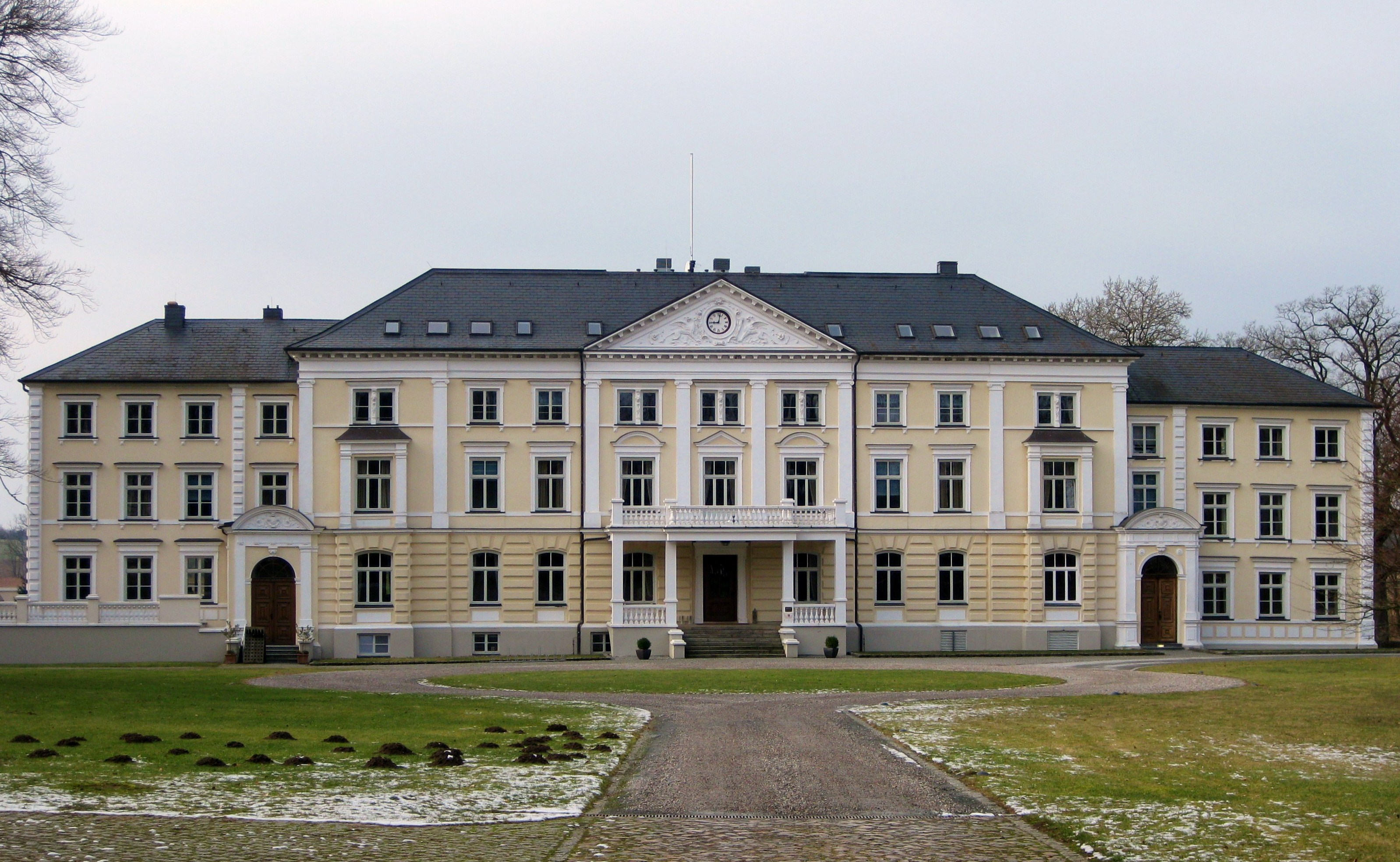 Lütgenhof manor, today a Hotel, at Dassow, on the banks of river Stepenitz, Mecklenburg, Germany